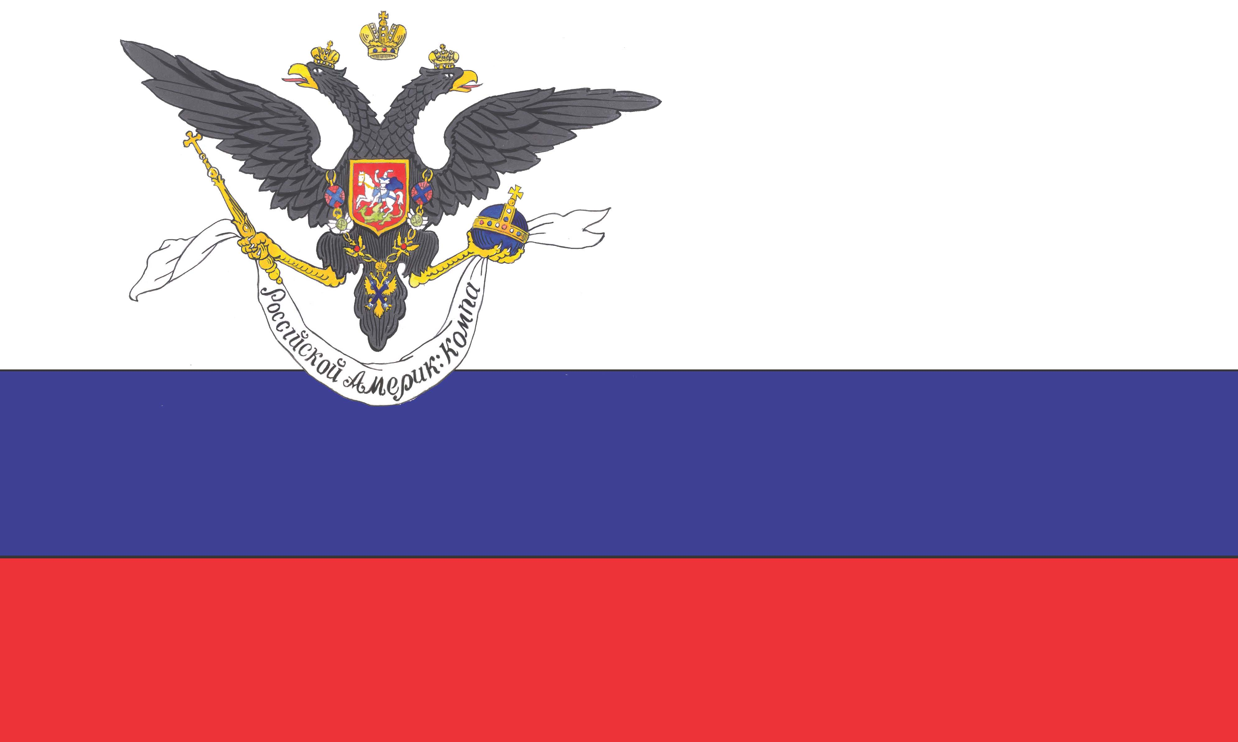 Replica flag created and used for the 200th anniversary of Bodega Bay and Fort Ross, 2012. Designed near Fort Ross and produced with the cooperation of the Russian America Society, Moscow.